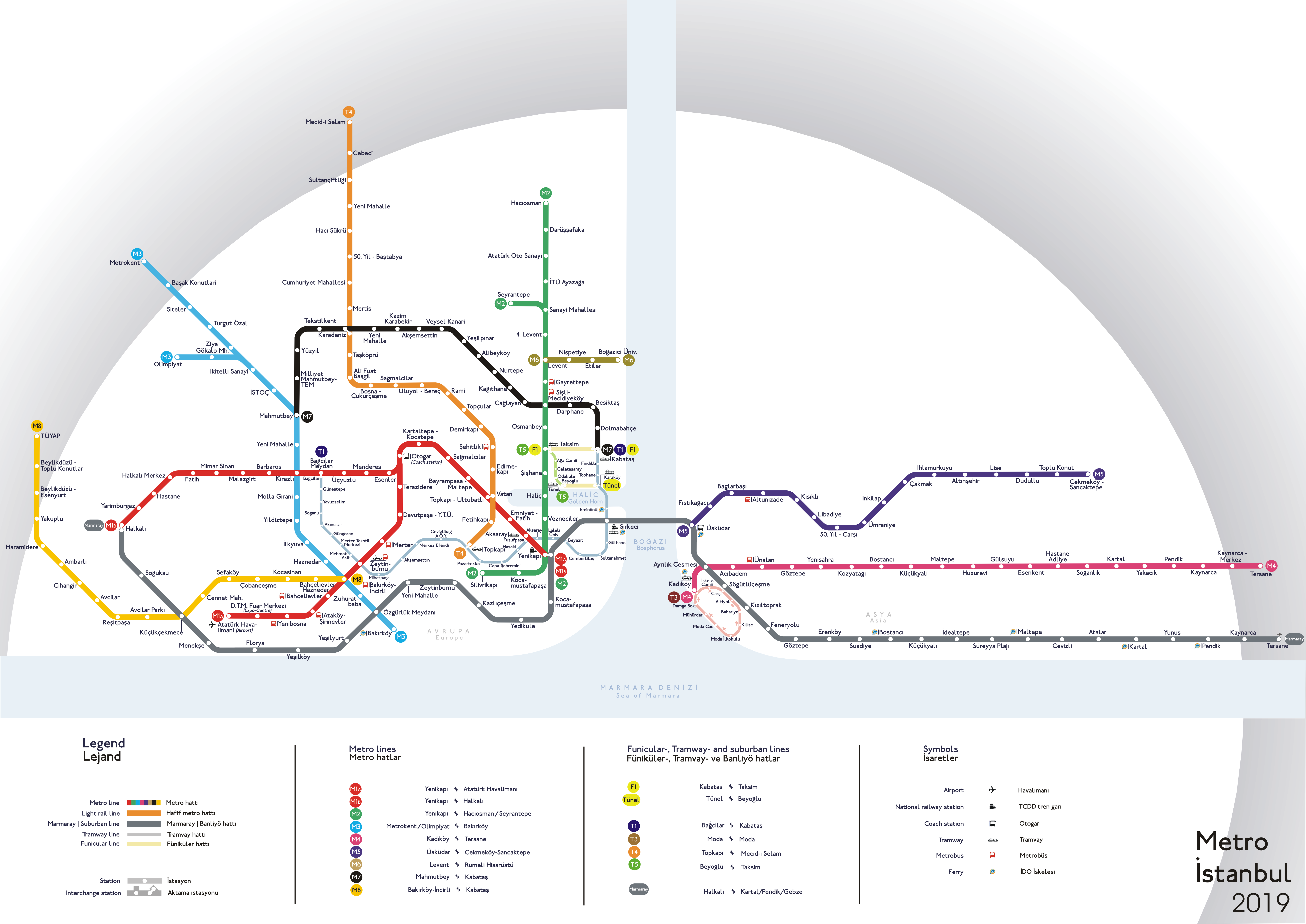 Istanbul Metro Map (Extensions) M5 Kabatas - Besiktas - Mahmutbey (2015-202X)